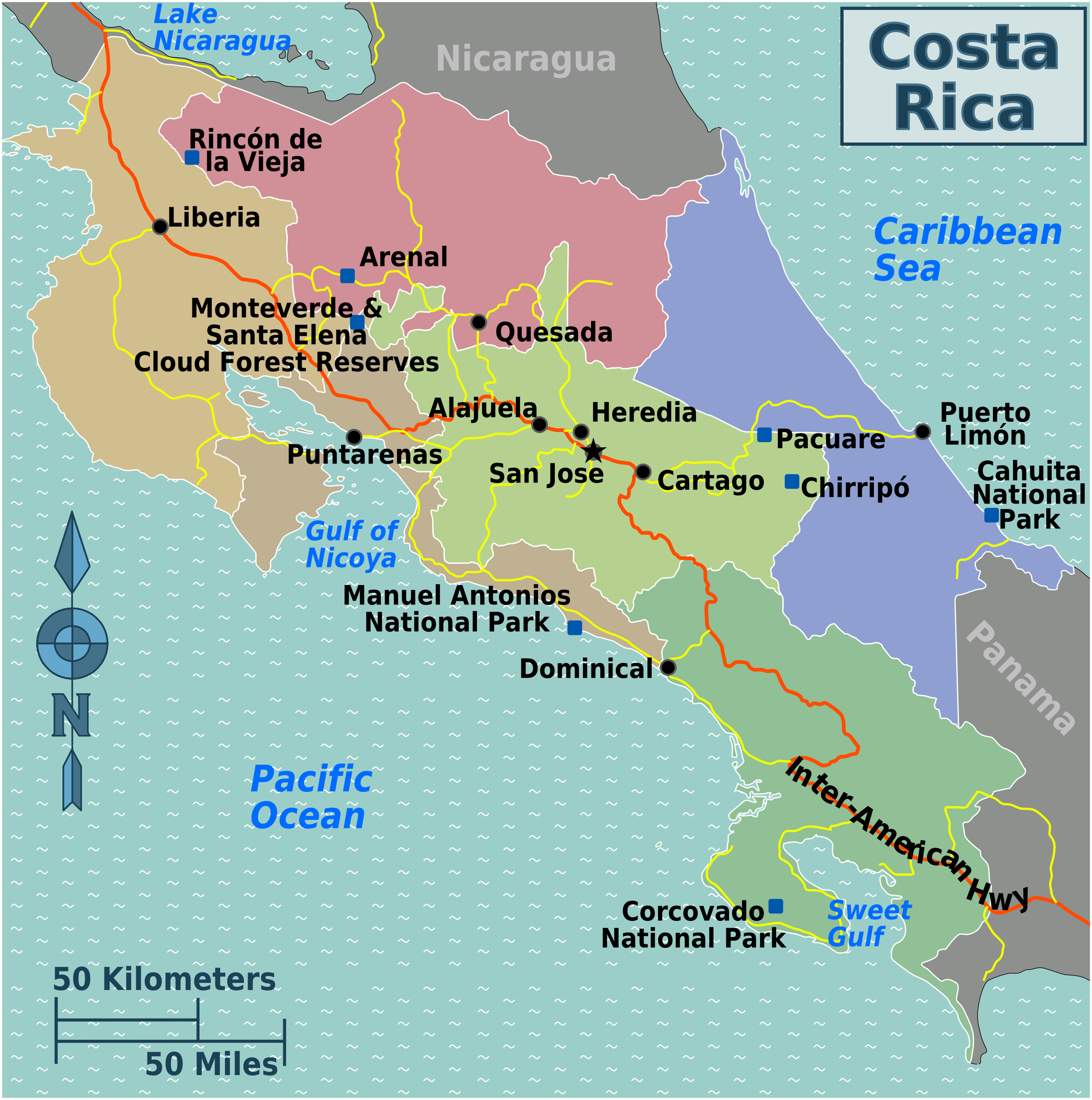 Costa Rica regions map for use on Wikivoyage, English version